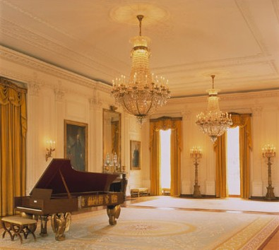 The East Room of the White House, administration of Bill Clinton.